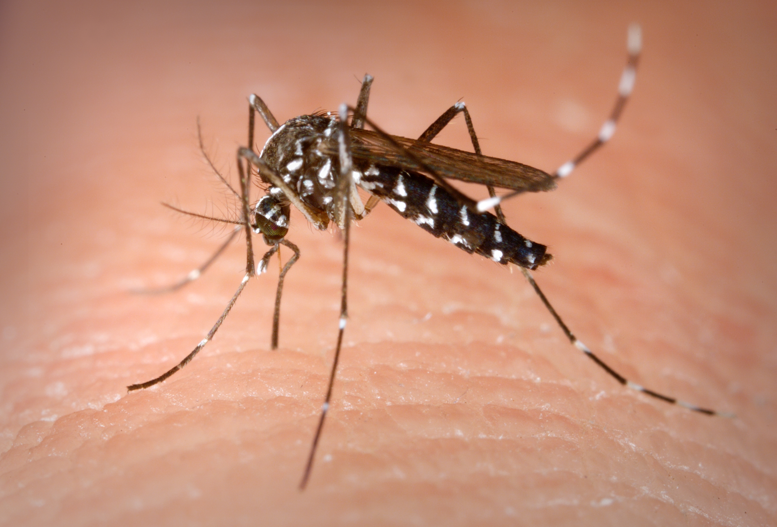 This is an Aedes albopictus female mosquito obtaining a blood meal from a human host. Under experimental conditions the Aedes albopictus mosquito, also known as the Asian tiger mosquito, has been found to be a vector of West Nile virus. Aedes is a genus of the Culicine family of mosquitos.